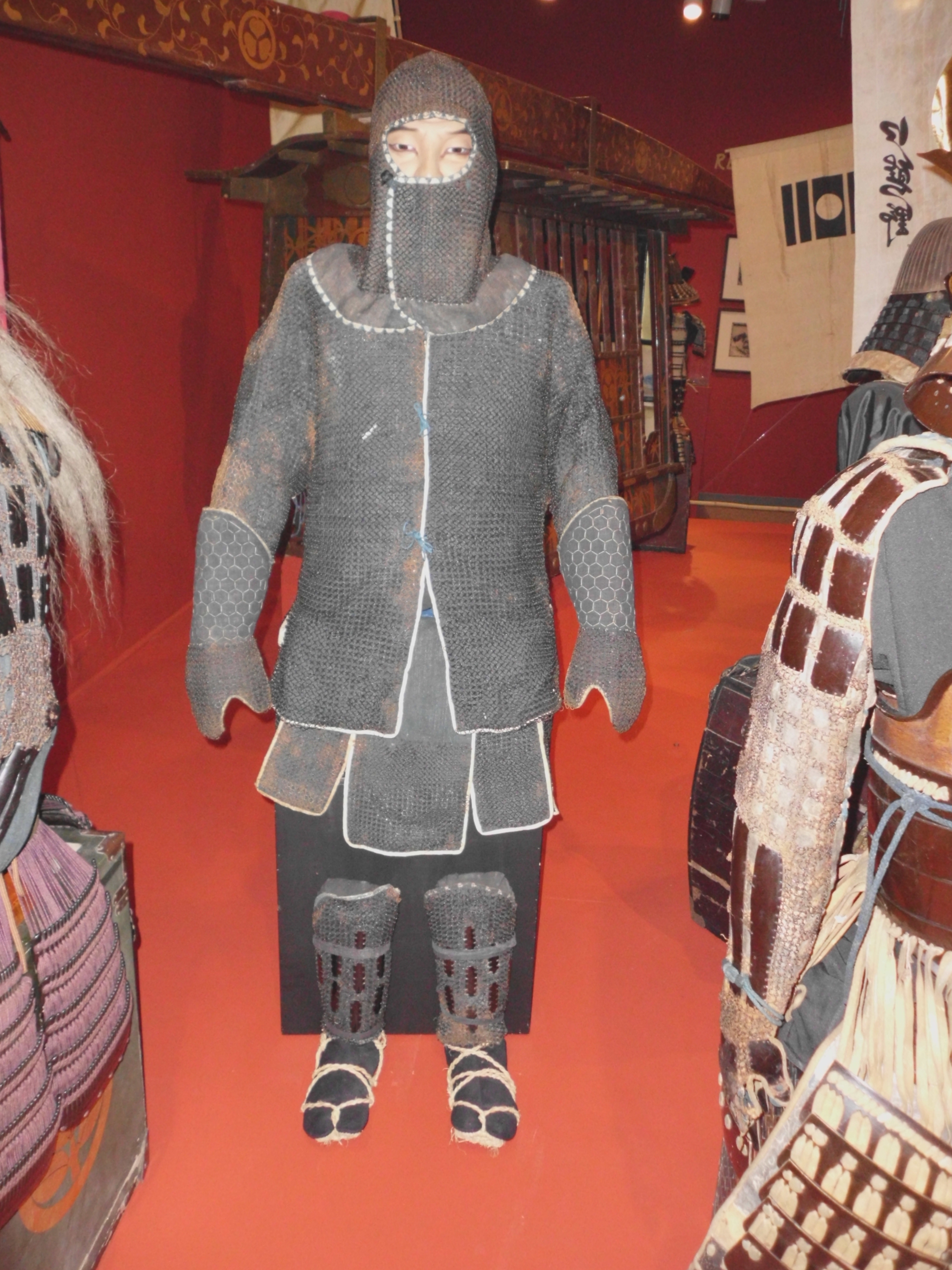 Samurai kusari gusoku or chain armor, composite full suit of Edo period samurai chain armor from the Return of the Samurai exhibit. The Art Gallery Of Greater Victoria 2010 Victoria B.C. Canada